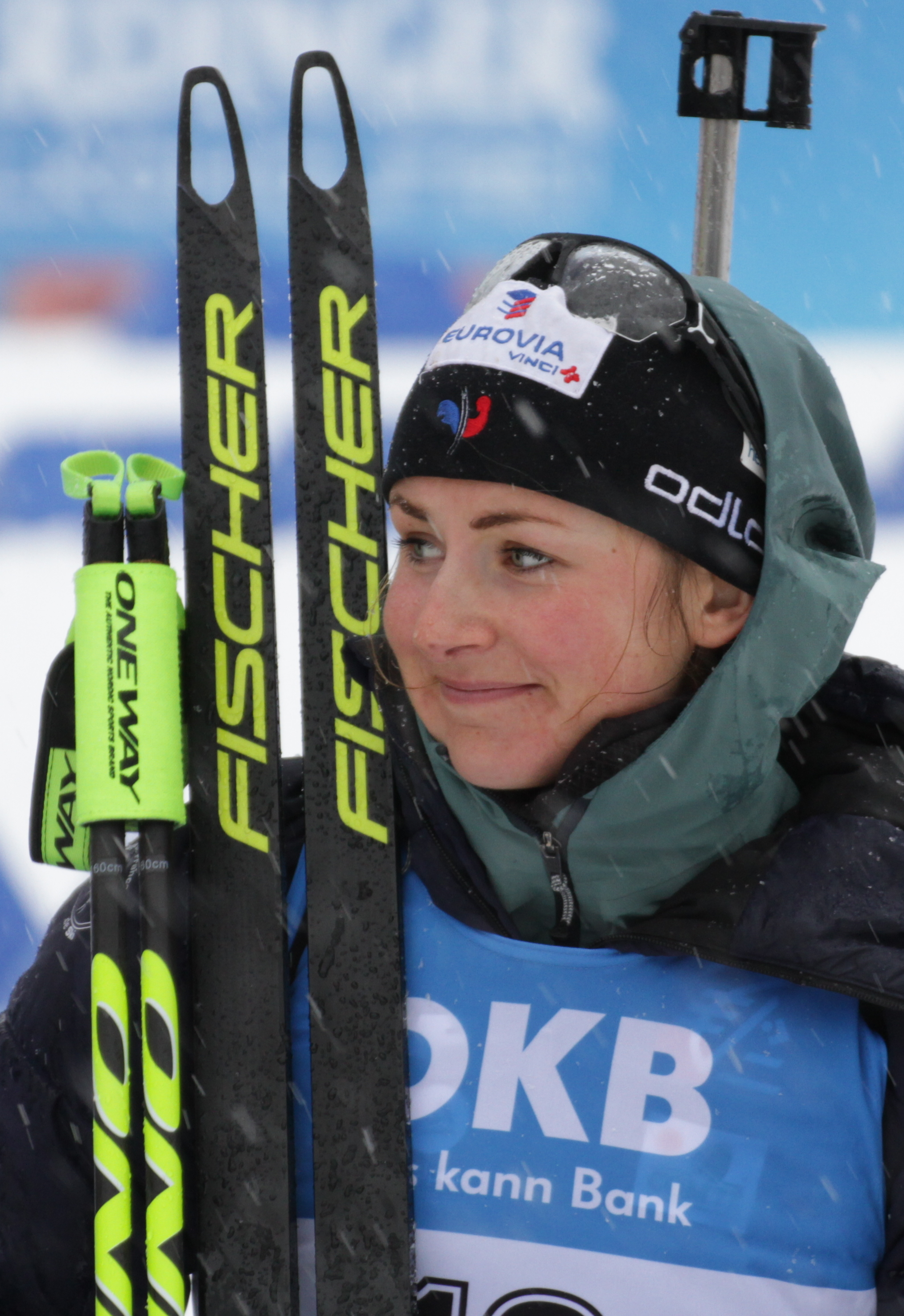 2018 Oberhof Biathlon World Cup - Sprint Women